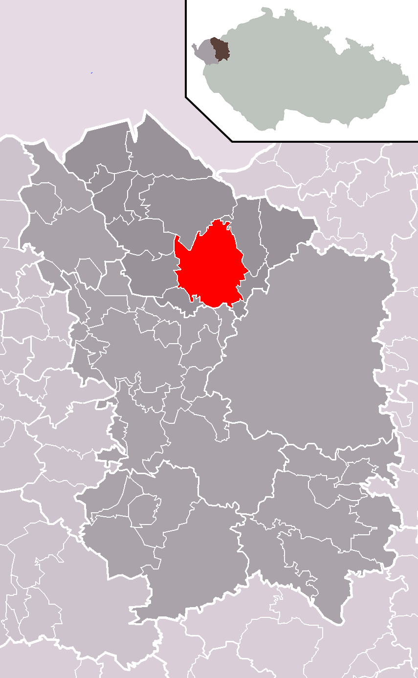 Location of Ostrov town within Karlovy Vary District and administrative area of Ostrov as a Municipality with Extended Competence.